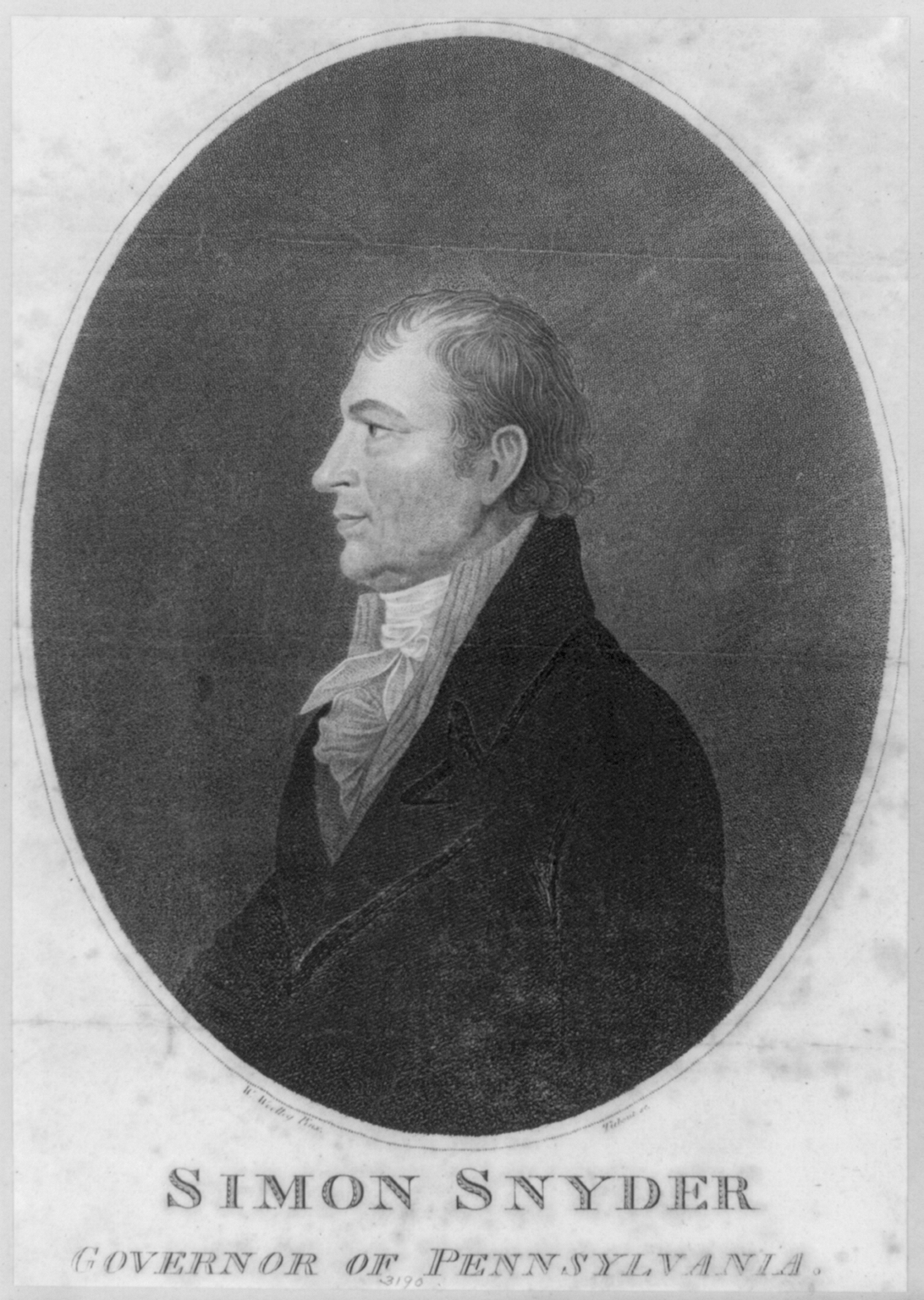 Simon Snyder, 1759-1819, half-length portrait, left profile